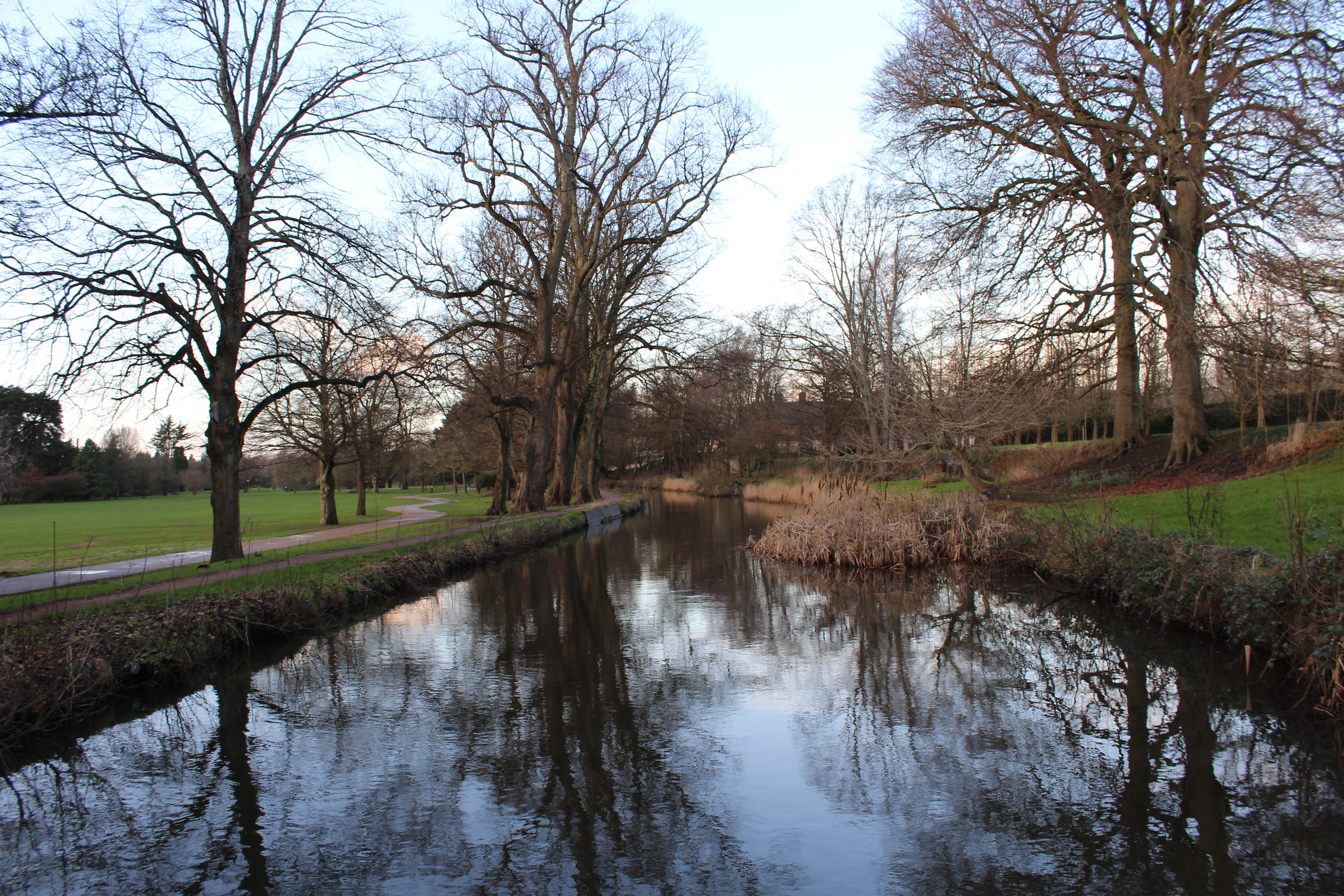 The Dock Feeder Canal in Bute Park, Cardiff. Looking north from the Royal Welsh College of Music & Drama.